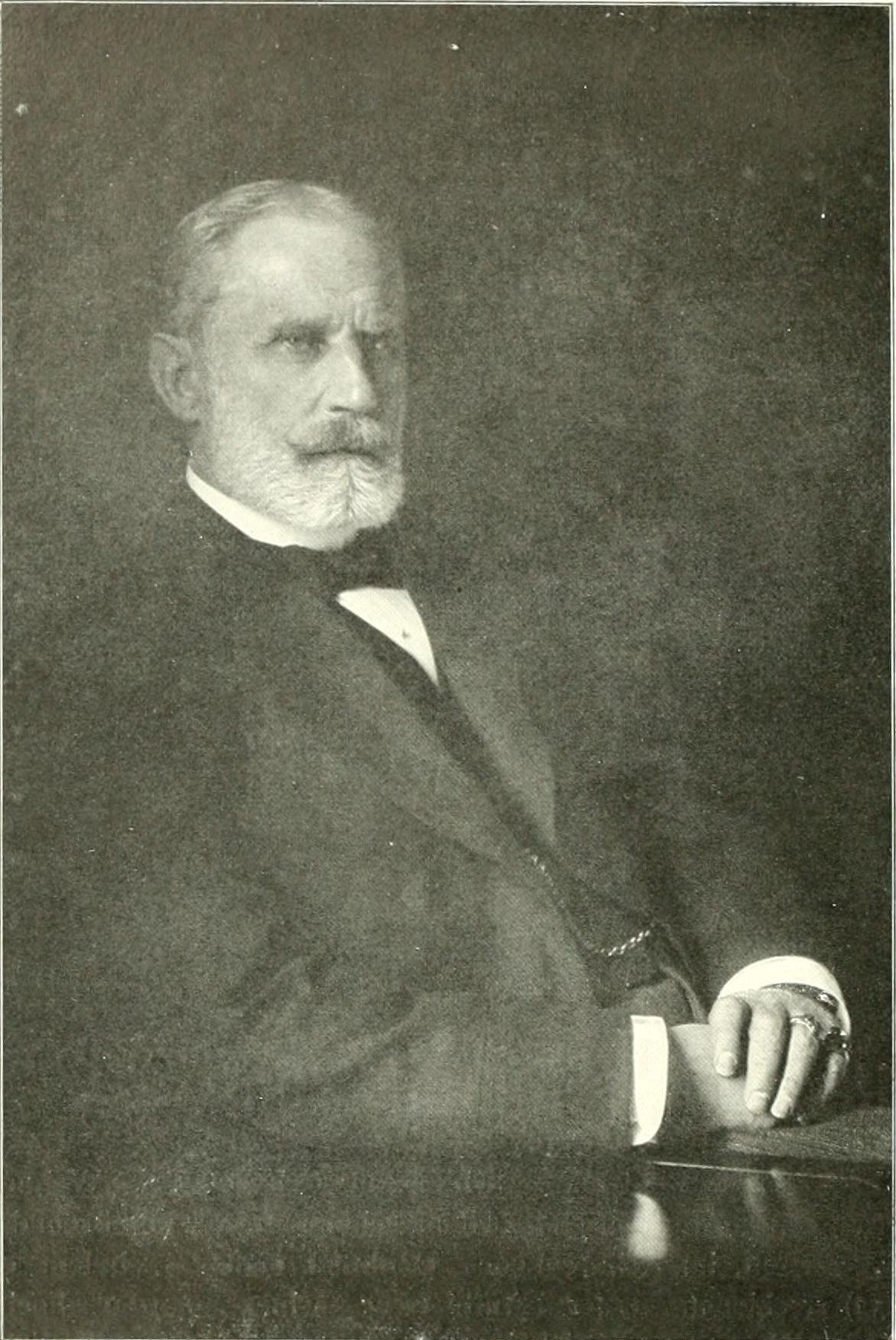 Staatsminister Karl Rothe (1848-1921).